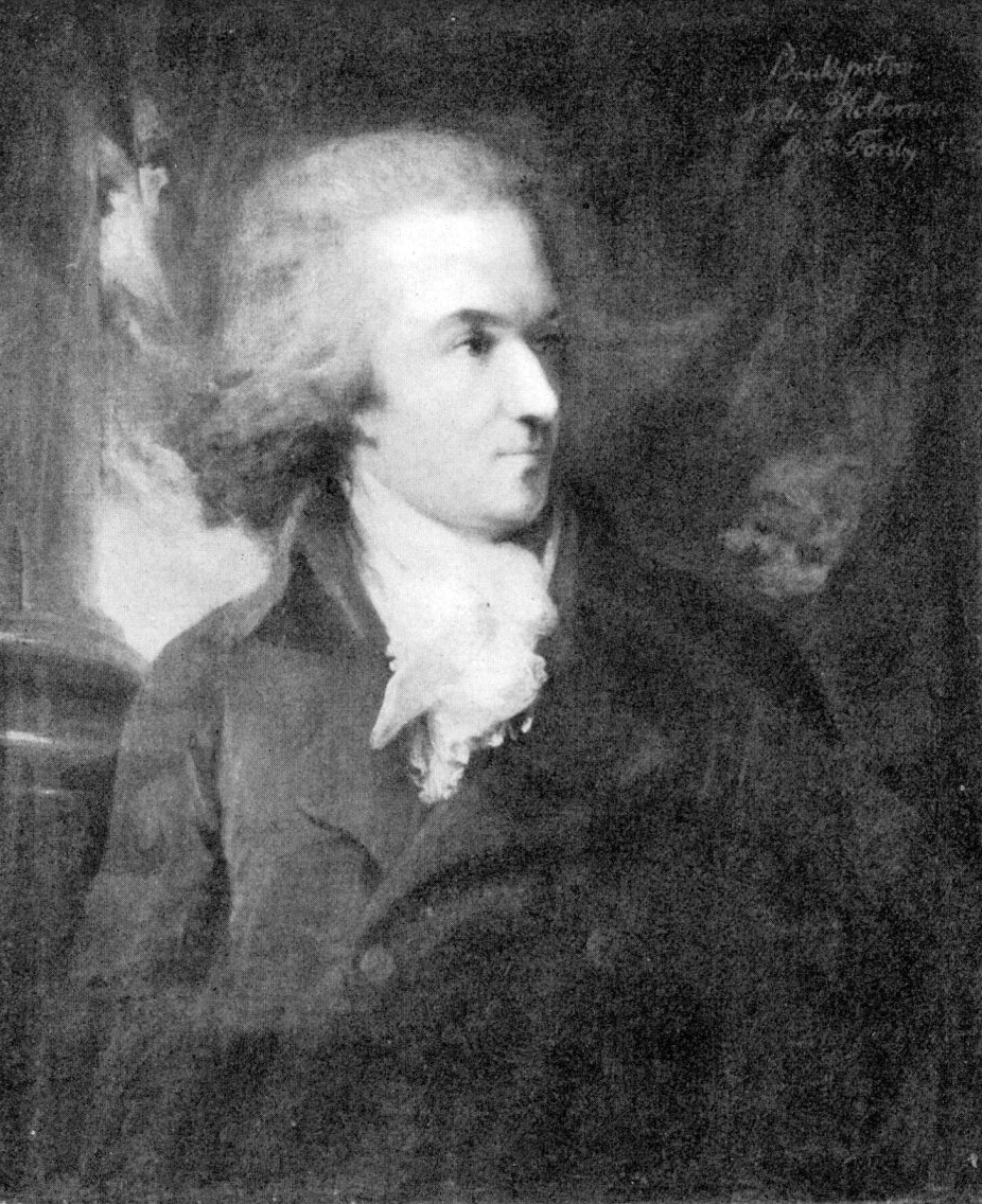 Niclas Holterman (1758–1824).